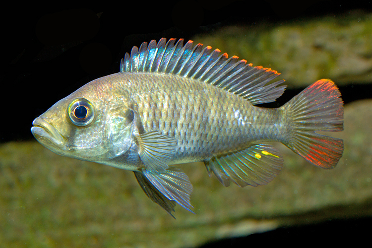 Pundamilia (Haplochromis) nyererei "Mwanza Gulf" (Witte-Maas & Witte, 1985) gravid female, photo taken in captivity. F1 stock derived from 'Old World Exotics' (aka Laif DeMason) who imported some wild caught Victorian cichlids in 2007. 'The exact location was unknown so they were given the somewhat generic location of Mwanza Gulf.'